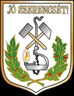 Symbol arms of Miner Day